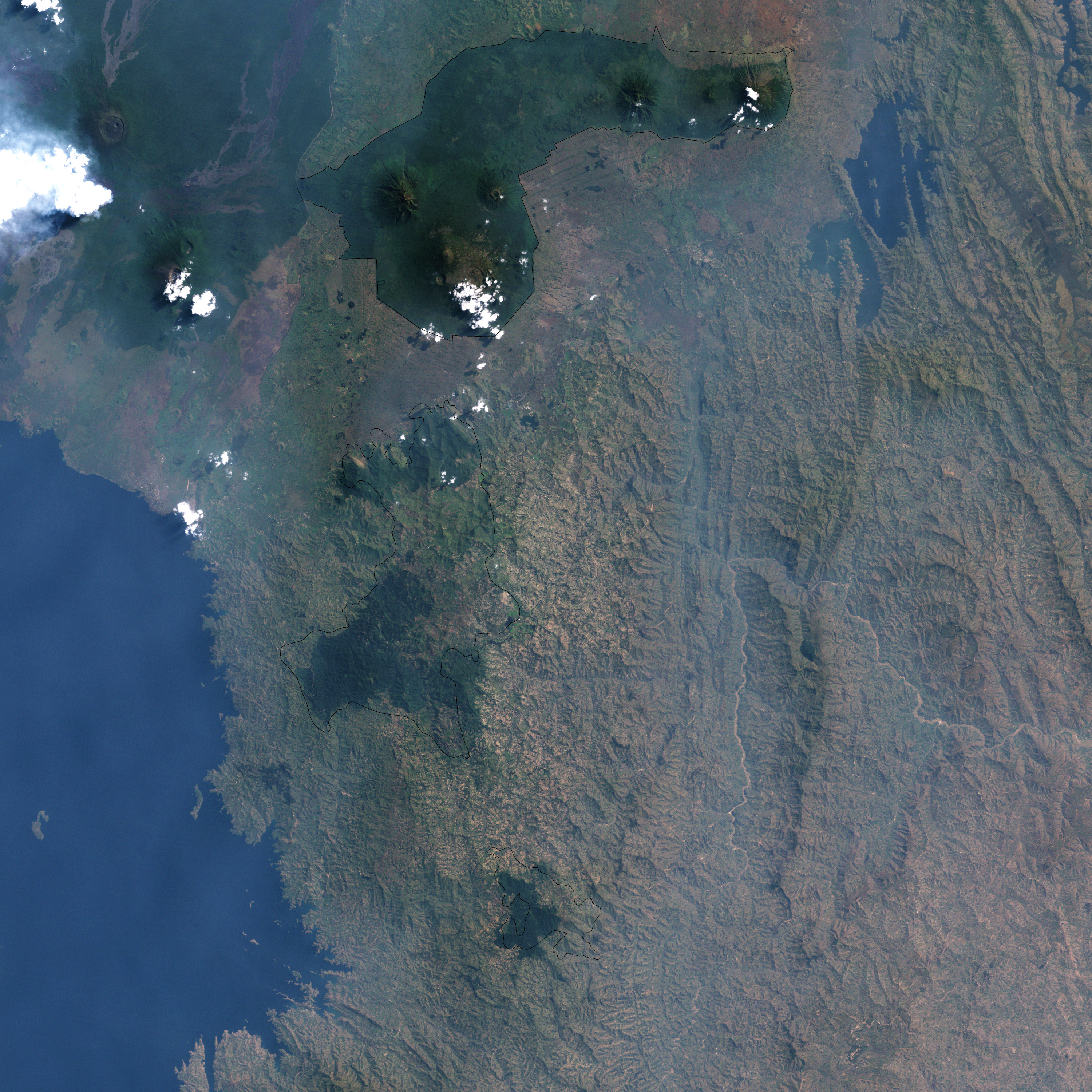 The forest before major deforestation. Image created using Landsat data provided by the United States Geological Survey. Instrument: Landsat 7 - ETM+.